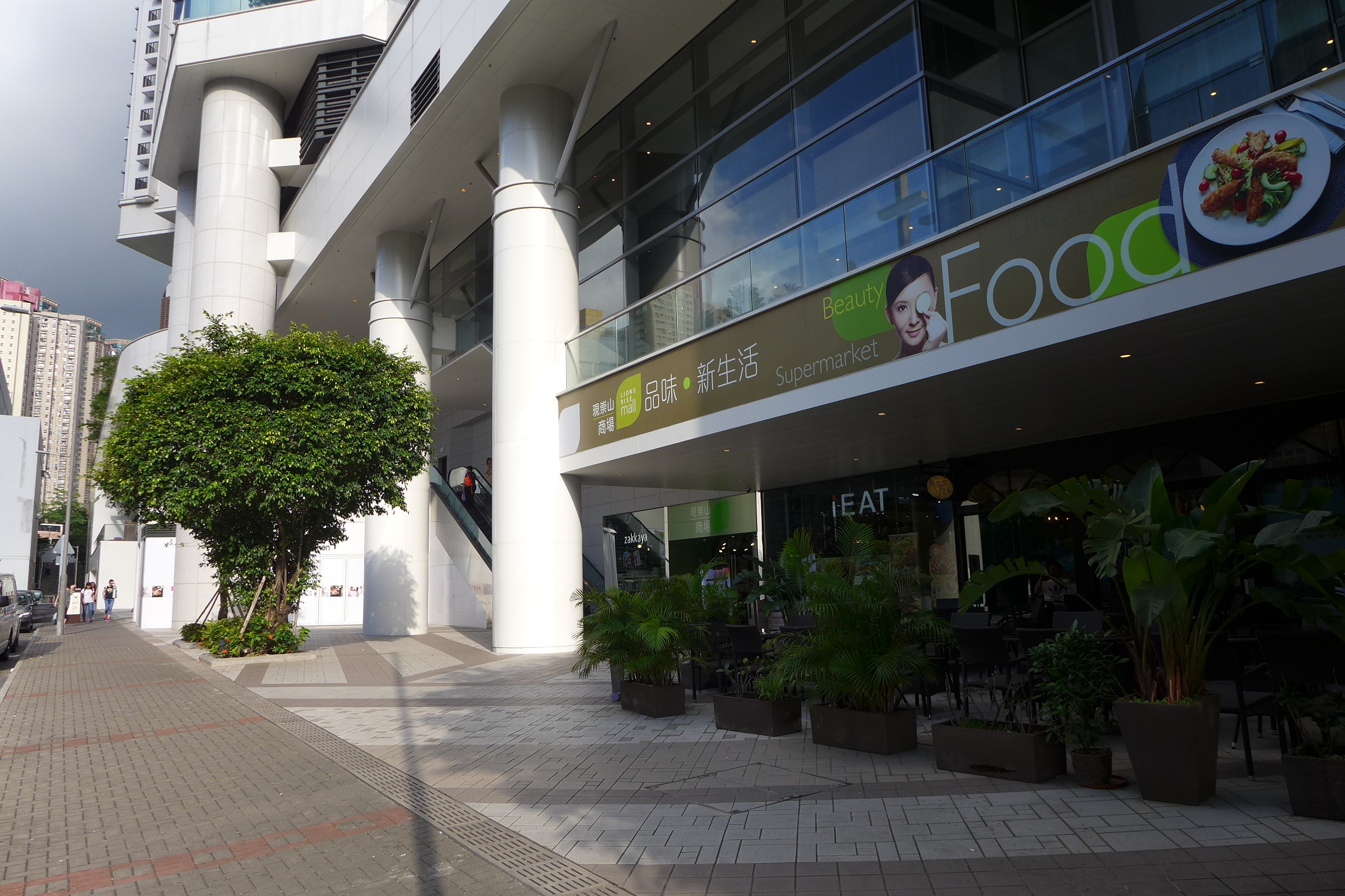 Lions Rise Shopping Arcade